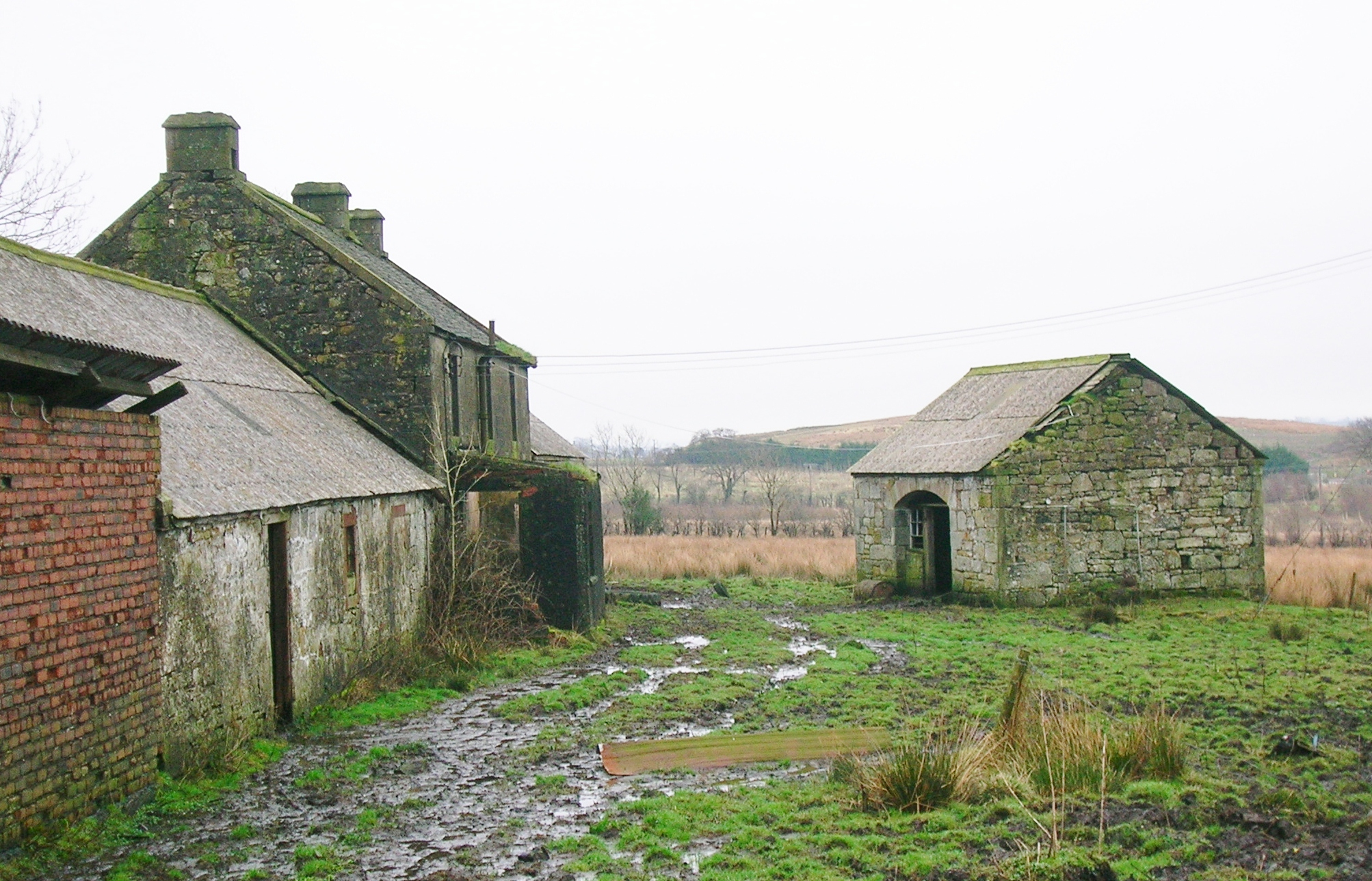 High Swindridgemuir Farm, Dalry, North Ayrshire, Scotland